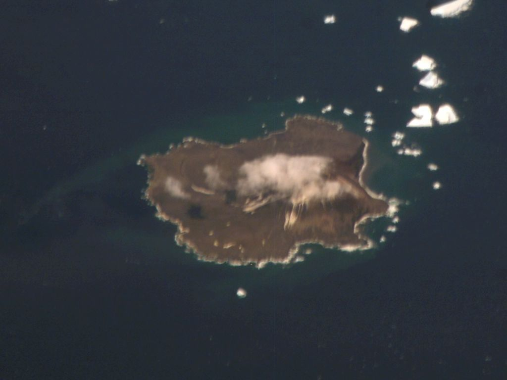 Zavodovski Island (South Sandwich Islands) with the volcano Mount Curry, surrounded by icebergs.